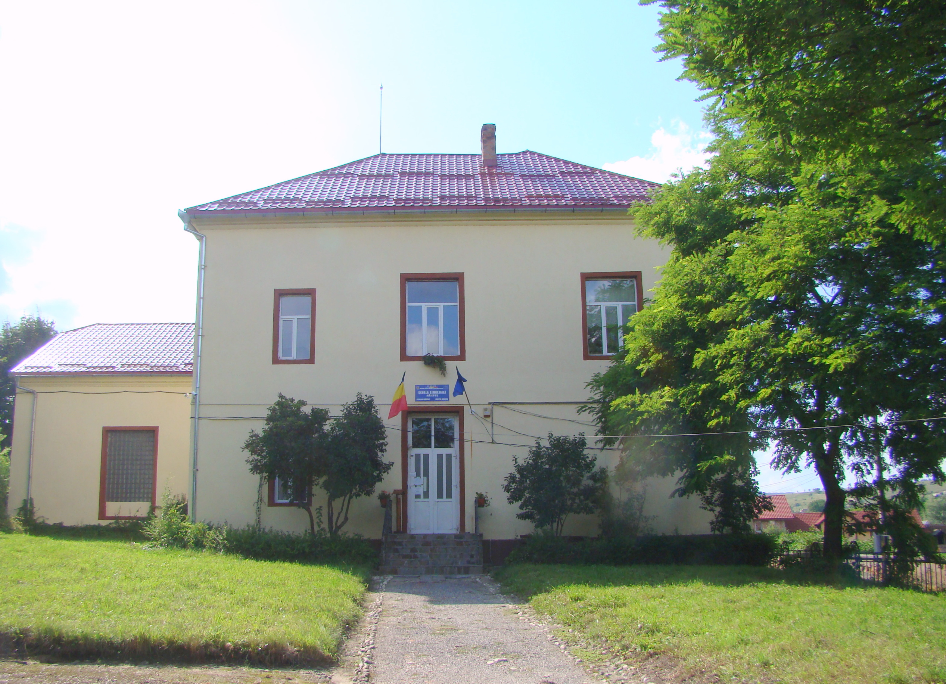 Măieruș, Brașov County, Romania